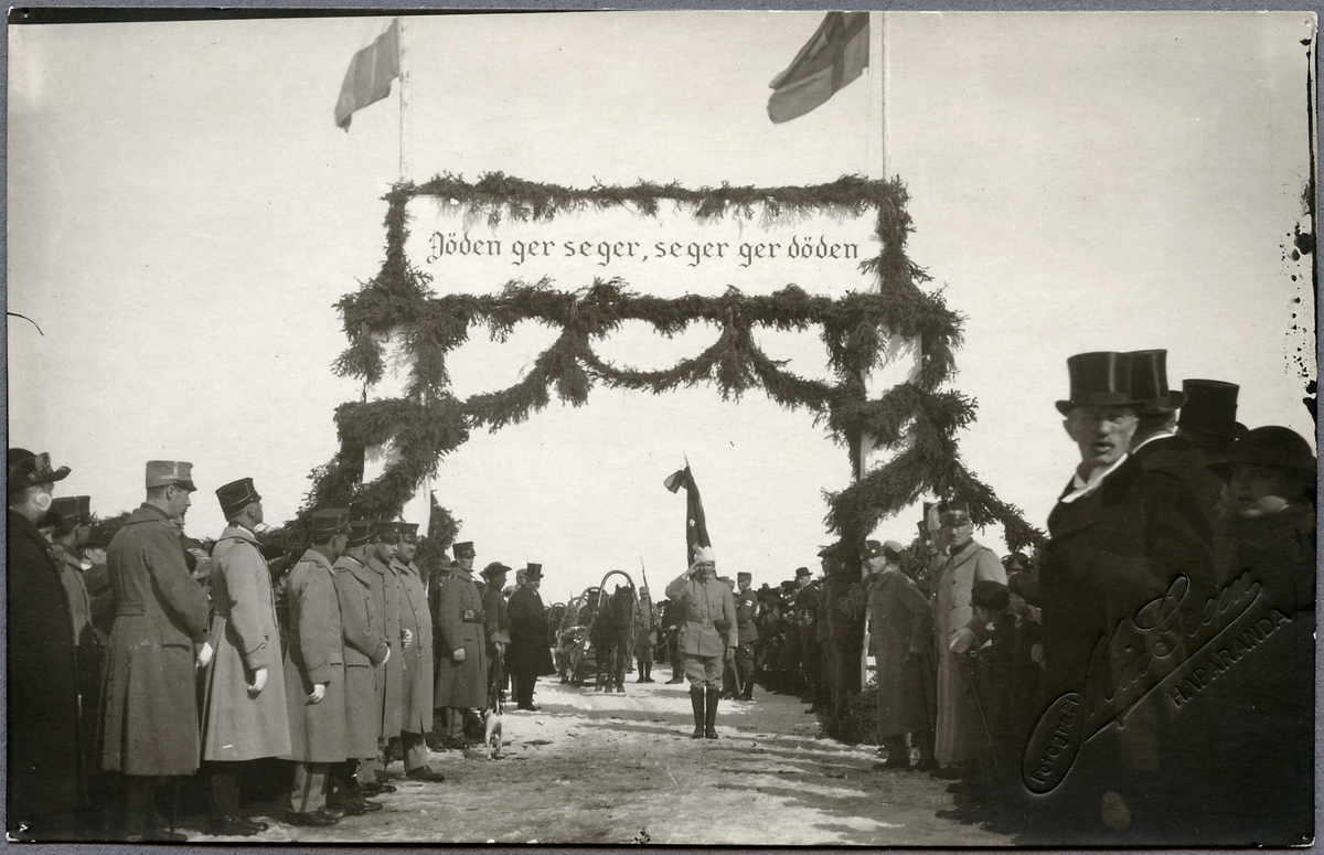 Fallen Swedish soldiers of Finnish civil war in April 1918